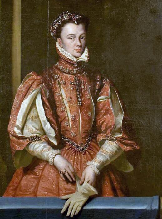 Theda Ukena, unsigned portrait, sone around 1750, see this article about the restoration for further informations (in German)